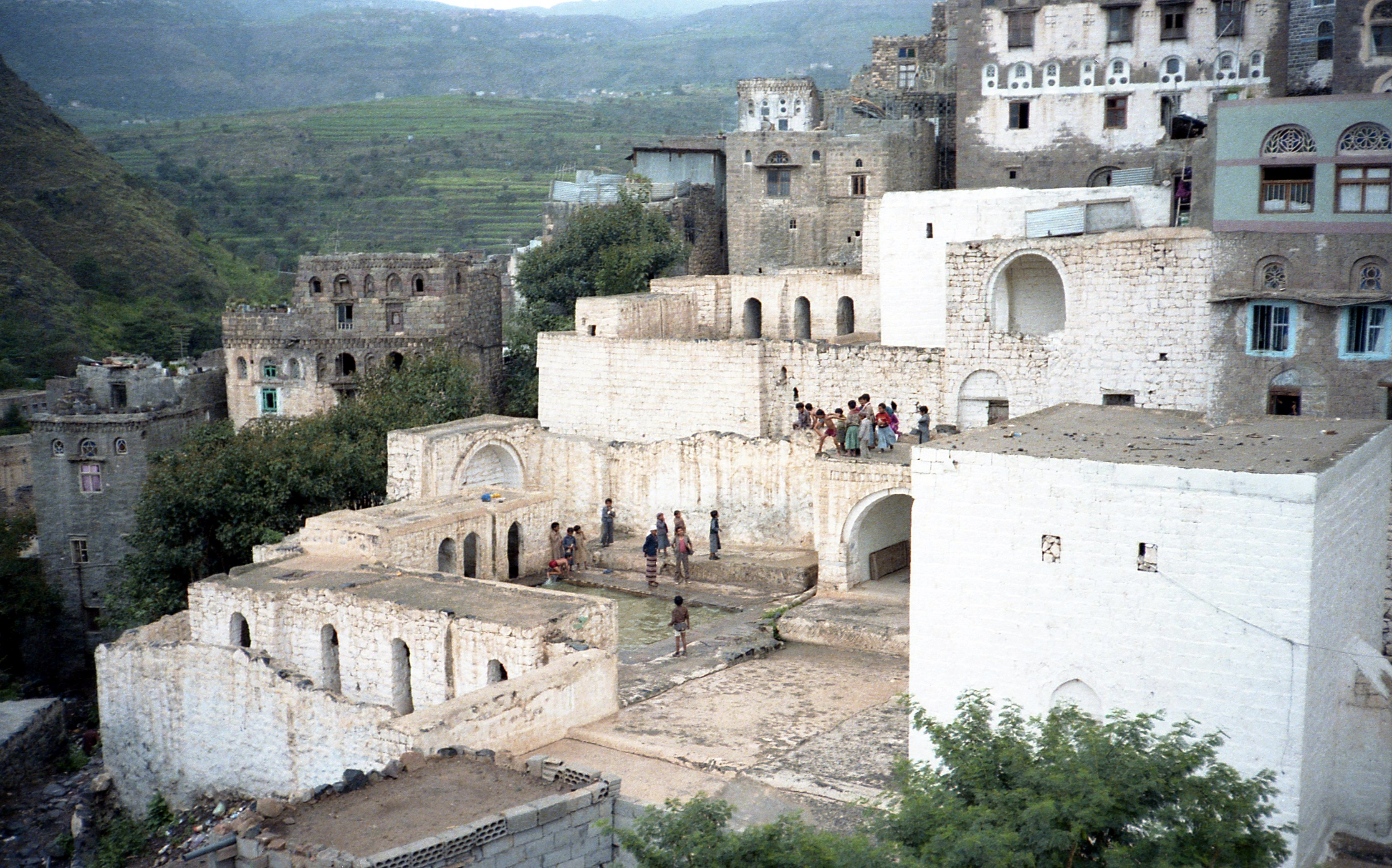 Jibla, Yemen